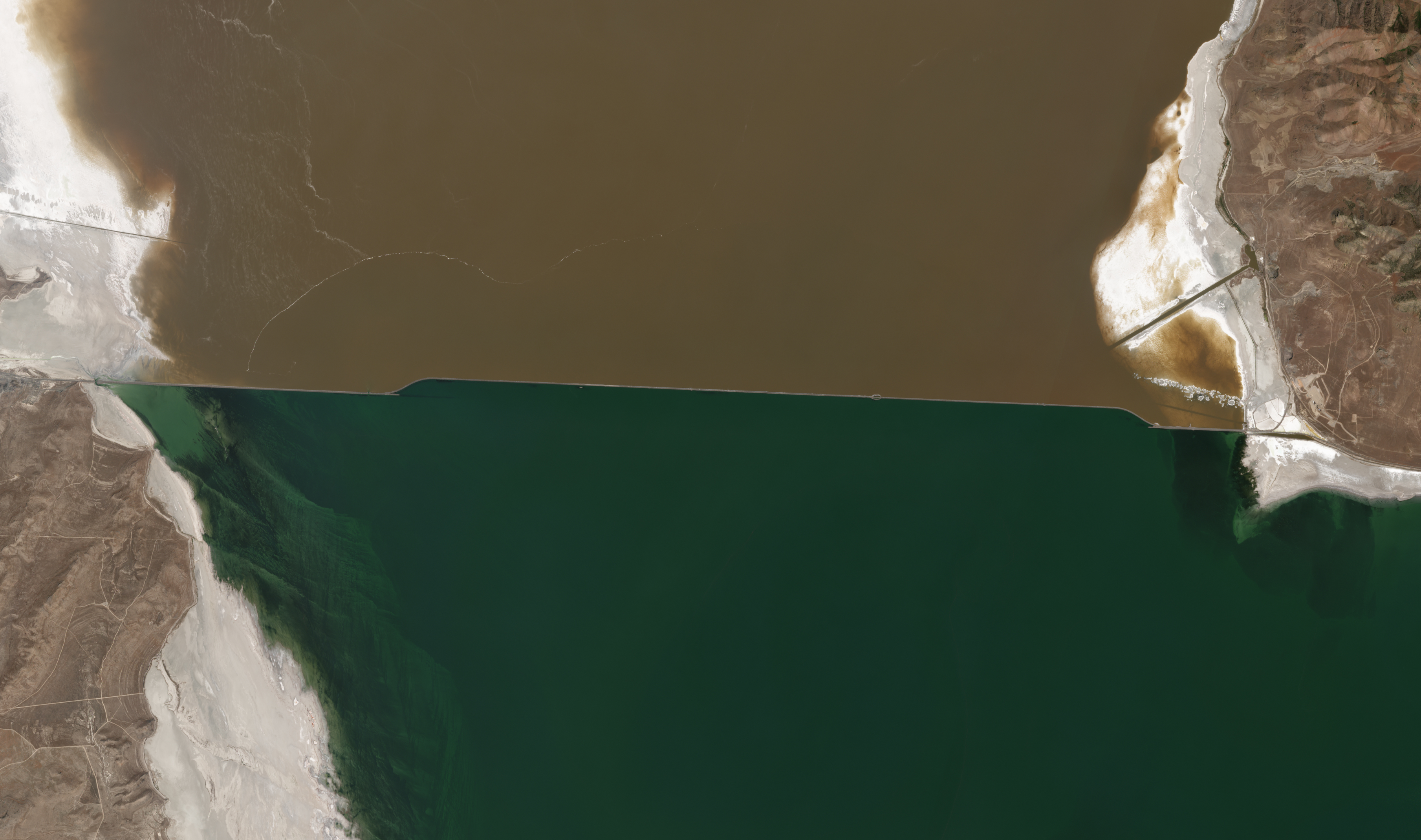 Date: 2018-08-09 Sensor: MSI on Sentinel-2B Resolution: 10m RGB Composites: True color, Band 4-3-2